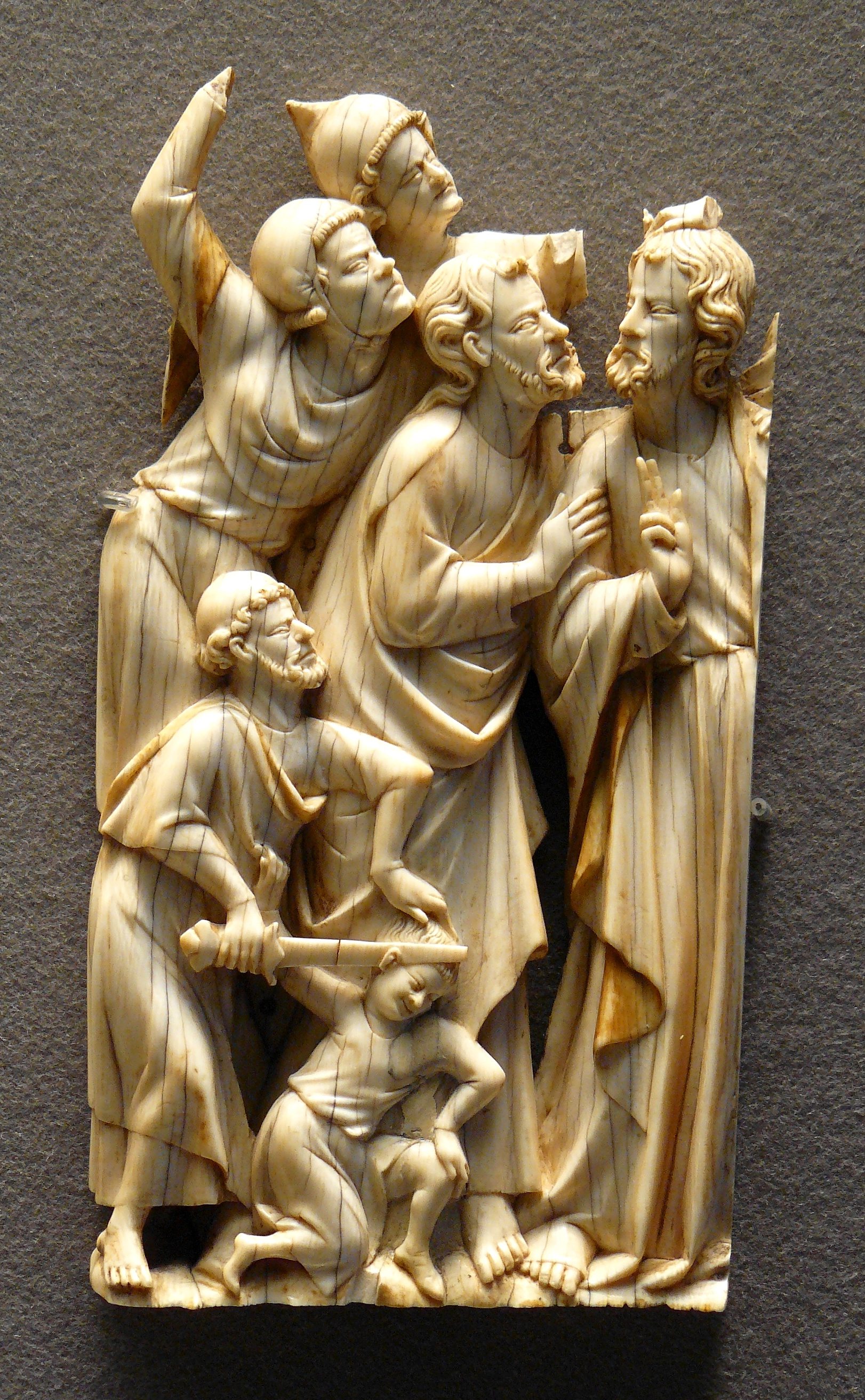 Arrest of Jesus. Ivory and traces of gilt, appliqué group, Paris, 1320–1330.